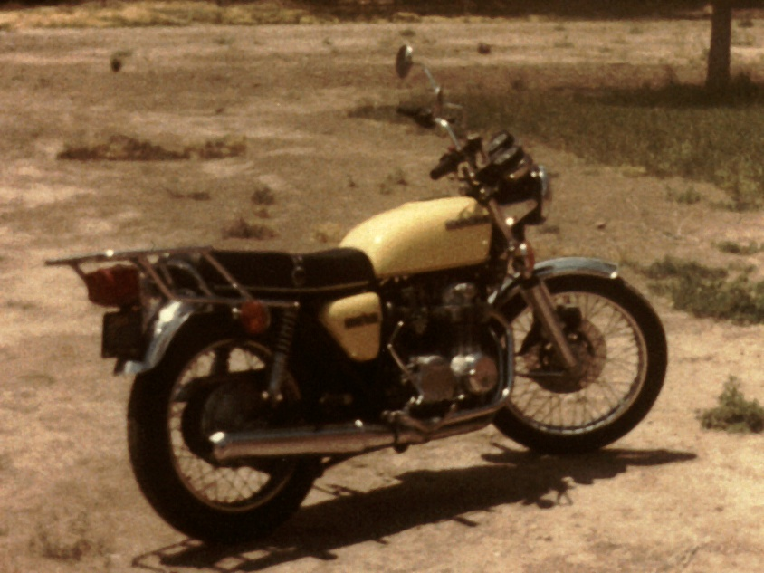 Personal Photo 1977 CB550F